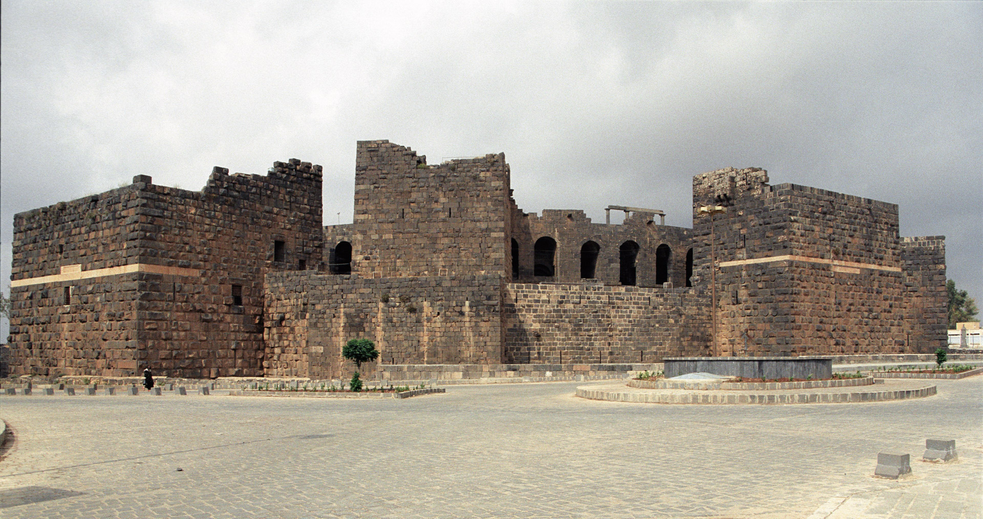 Syria, Roman theater in Bosra